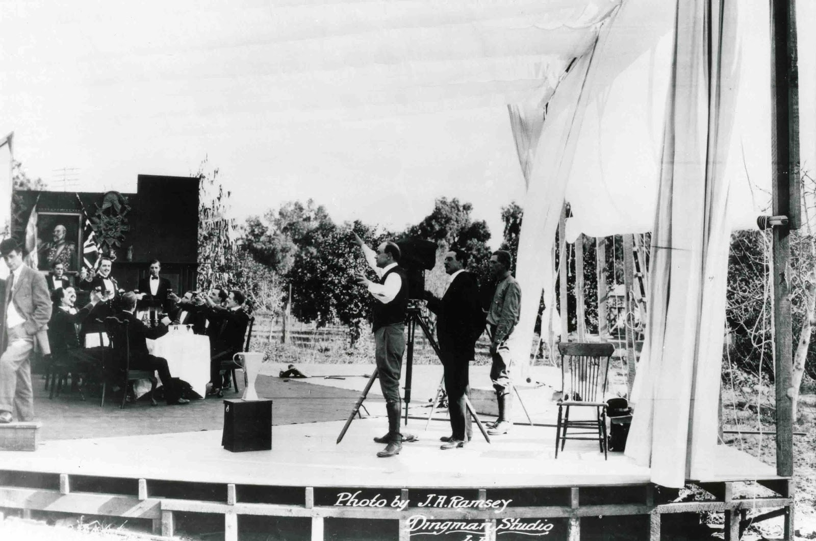 First sequence shooting of the film The Squaw Man in 1913. Cecil B. DeMille, director of the film, is in the center of the picture, wearing boots and a light suit. Dustin Farnum, star of the production, is on the stage, his hand raised, while the camera grinds. Cameraman is Alfredo Gandolfi. The building on the left is the old Lasky Barn, once situated in a lemon and orange grove on Vine Street and Selma Avenue. [1]